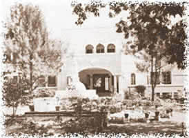 motherhouse of rvm